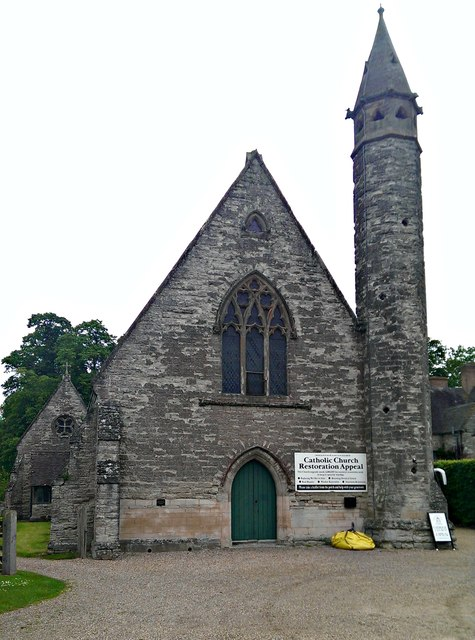 Coughton's other church, Coughton Court, Warwickshire. The Roman Catholic church of St Peter, Paul and Elizabeth.